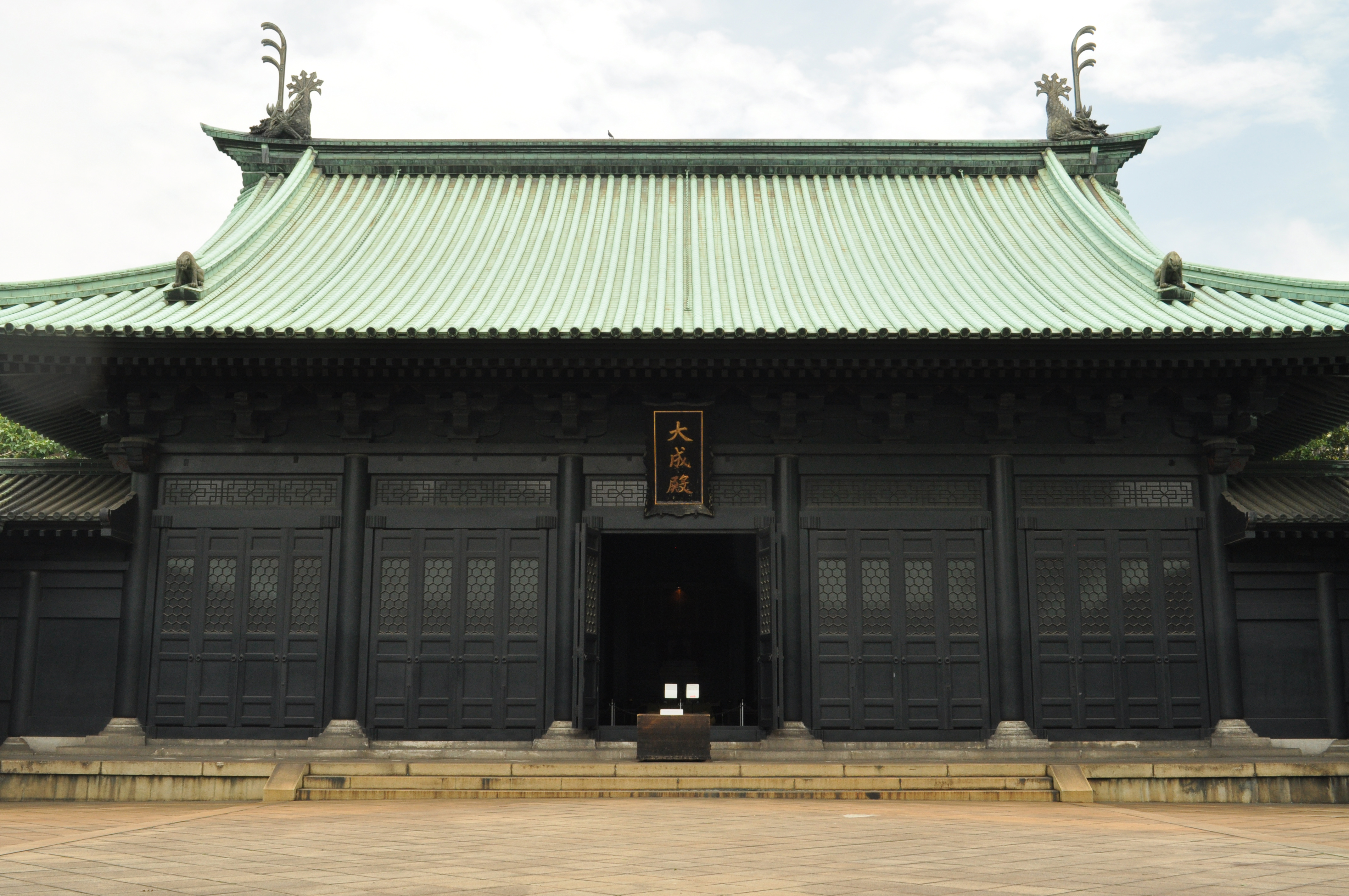 This photograph shows the Taisei-den (with the inscription 大成殿) at the Yushima Seido in Tokyo, Japan.